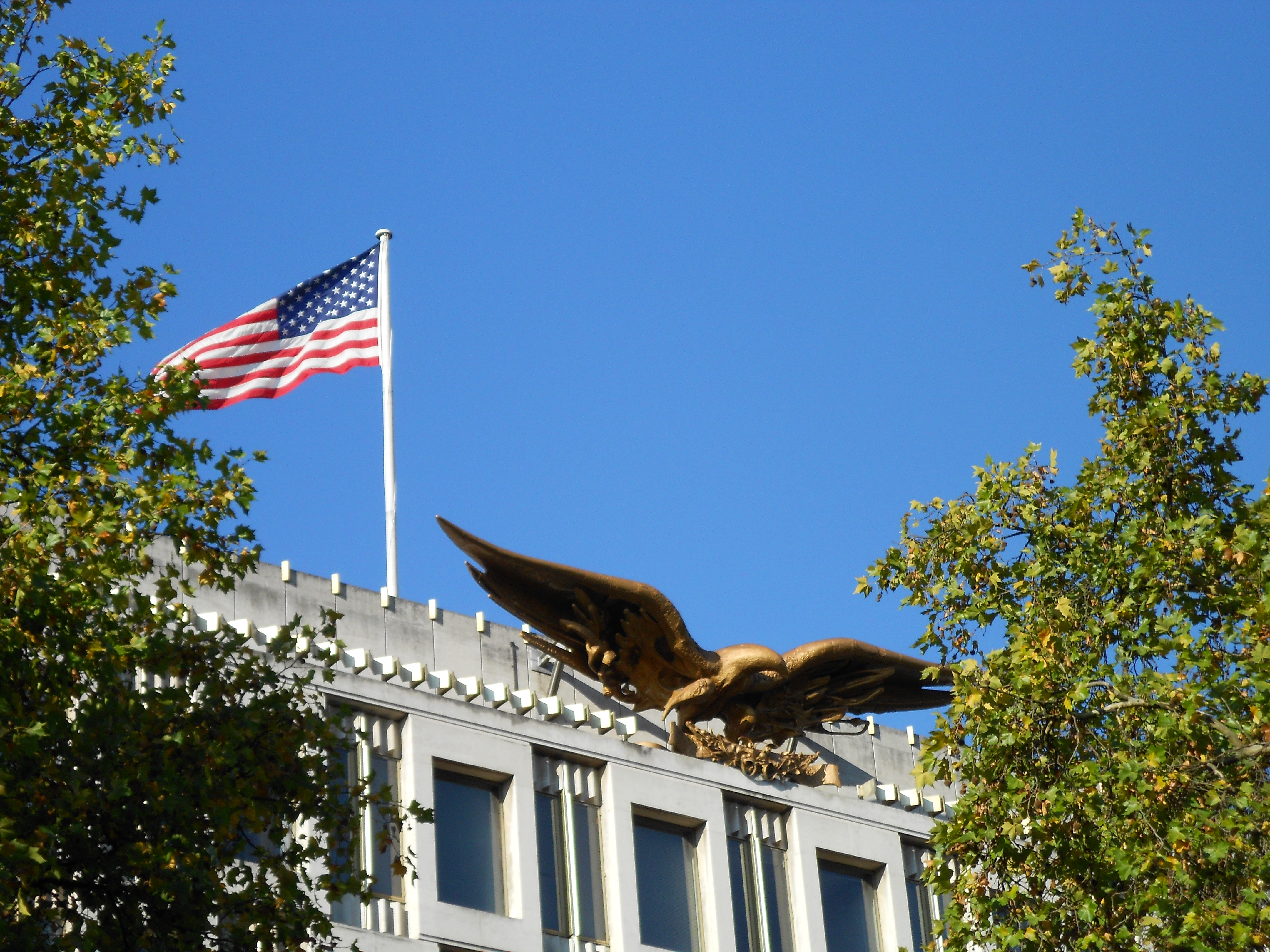 The Gilded American Eagle situated on the top of the American Embassy in London